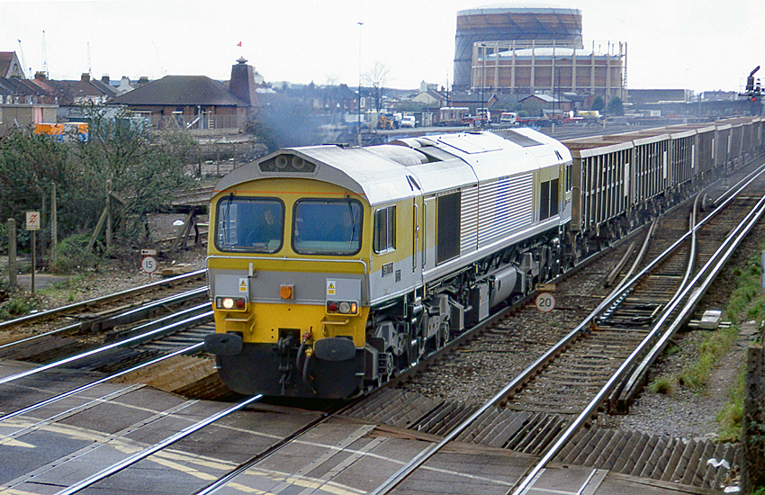 59101 Village of Whatley in ARC livery at Mt Pleasant crossing, Southampton. Scanned from a Fujichrome 35mm slide.